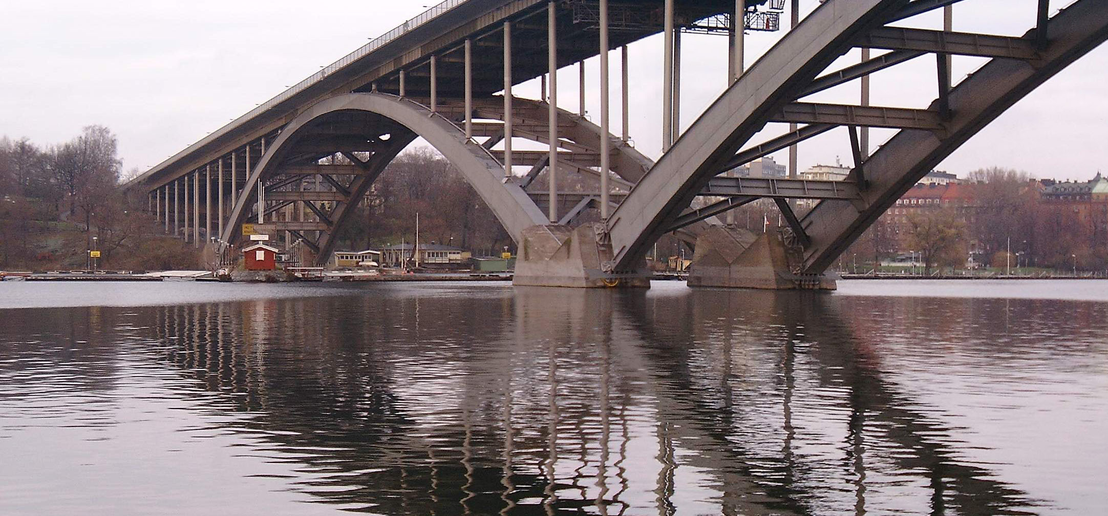 Photo of the northern end of Västerbron, a bridge in central Stockholm, Sweden. View from Långholmen facing north.